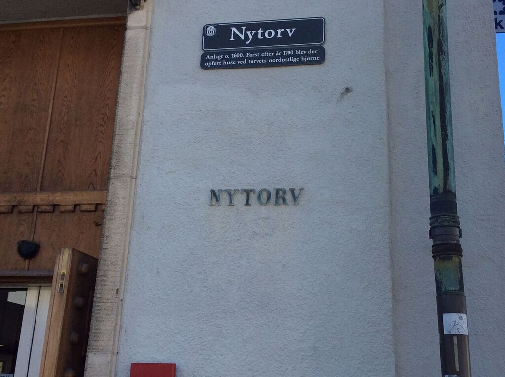 Street name sign of Nytorv in Aalborg